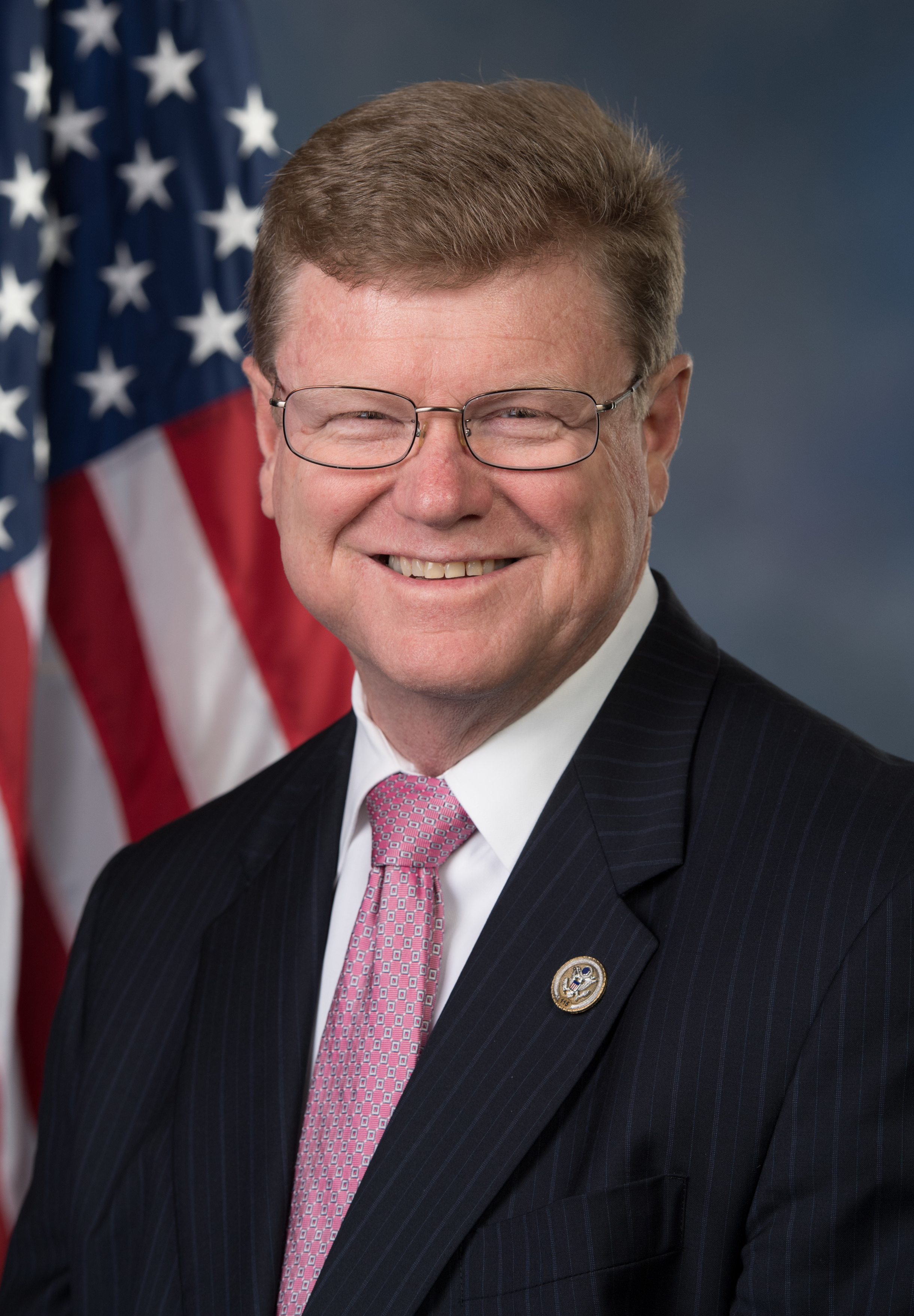 Mark Amodei official photo